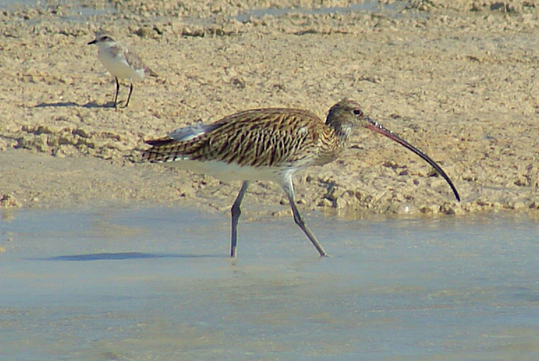 Eurasian Curlew on Al Reem Island.